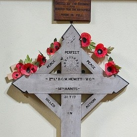 Wooden cross in All Saints' parish church, Hursley, Hampshire, in memory of 2nd Lieut Dennis George Wyldbore Hewitt VC, Hampshire Regiment. He was killed in action near St Julien in Belgium on 31 July 1917 aged 19. The brown wooden plaque records that the wooden cross was "erected by the regiment and removed from the battlefield where he fell".